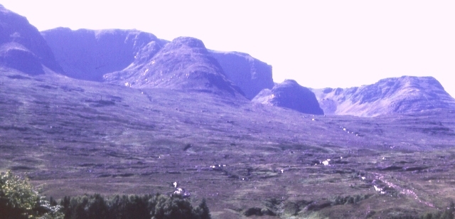 Photo taken by Anne Burgess, June 1972, and sourced from